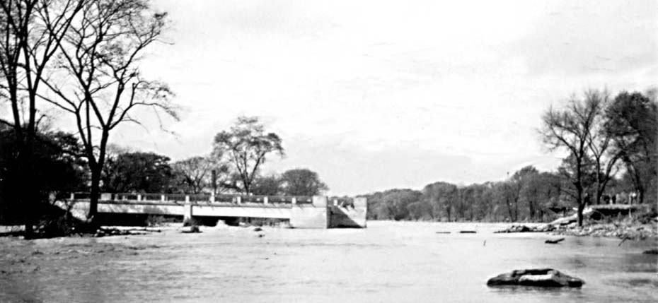 Lawrence Avenue crossing the Humber River, connecting Weston Road and Scarlett Road. The water level had been completely over the bridge as a result of Hurricane Hazel. By the time this picture was taken, the main river was in its course, but was flowing very fast, so that it was banked up against the curve of the bluff, and there was a standing wave head-high above the level of the bank on this side of the river.